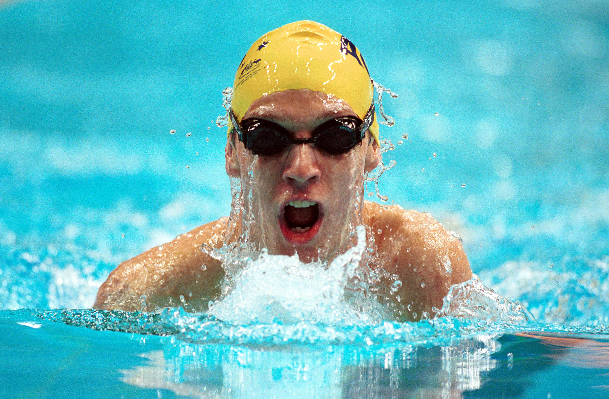 Action shot of Australian swimmer Ben Austin during the 200m medley SM8 event, 2000 Sydney Paralympic Games, Day 02. Austin won silver in this event.